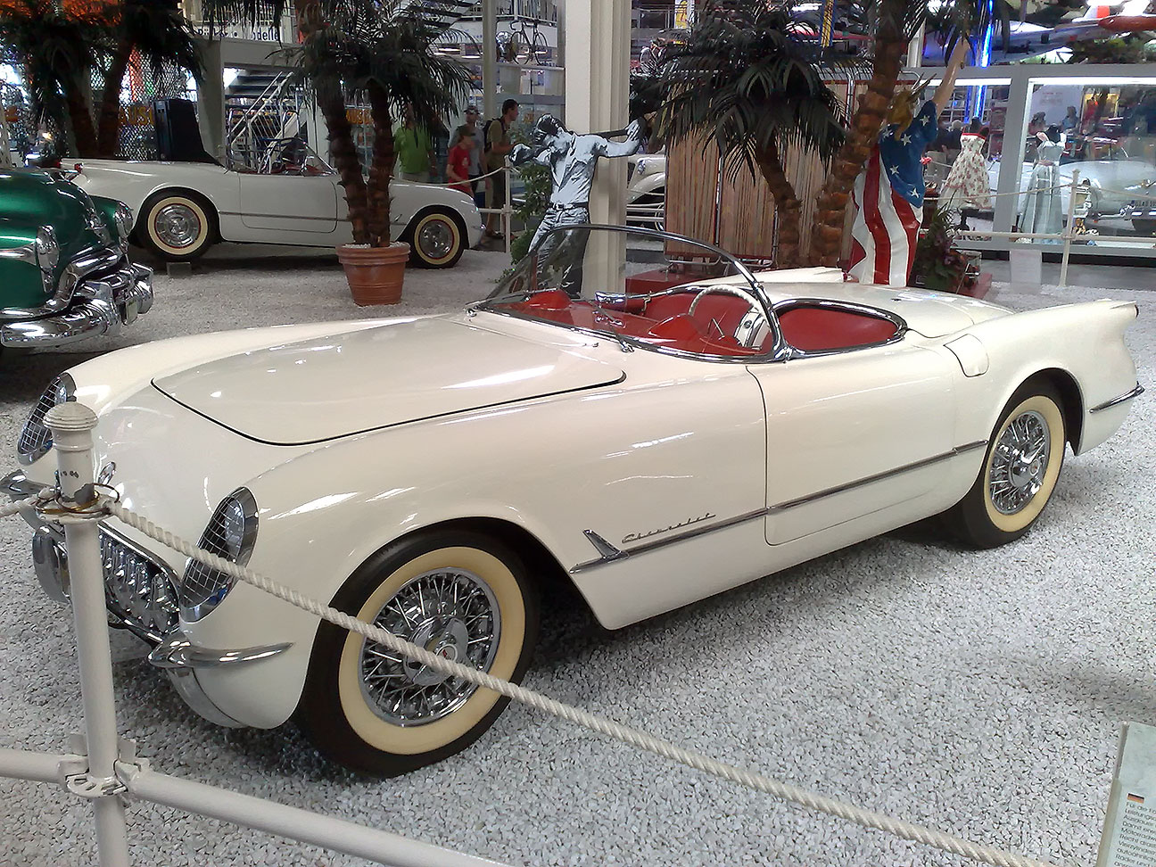 1954 Chevrolet Corvette C1 at Auto- und Technikmuseum Sinsheim